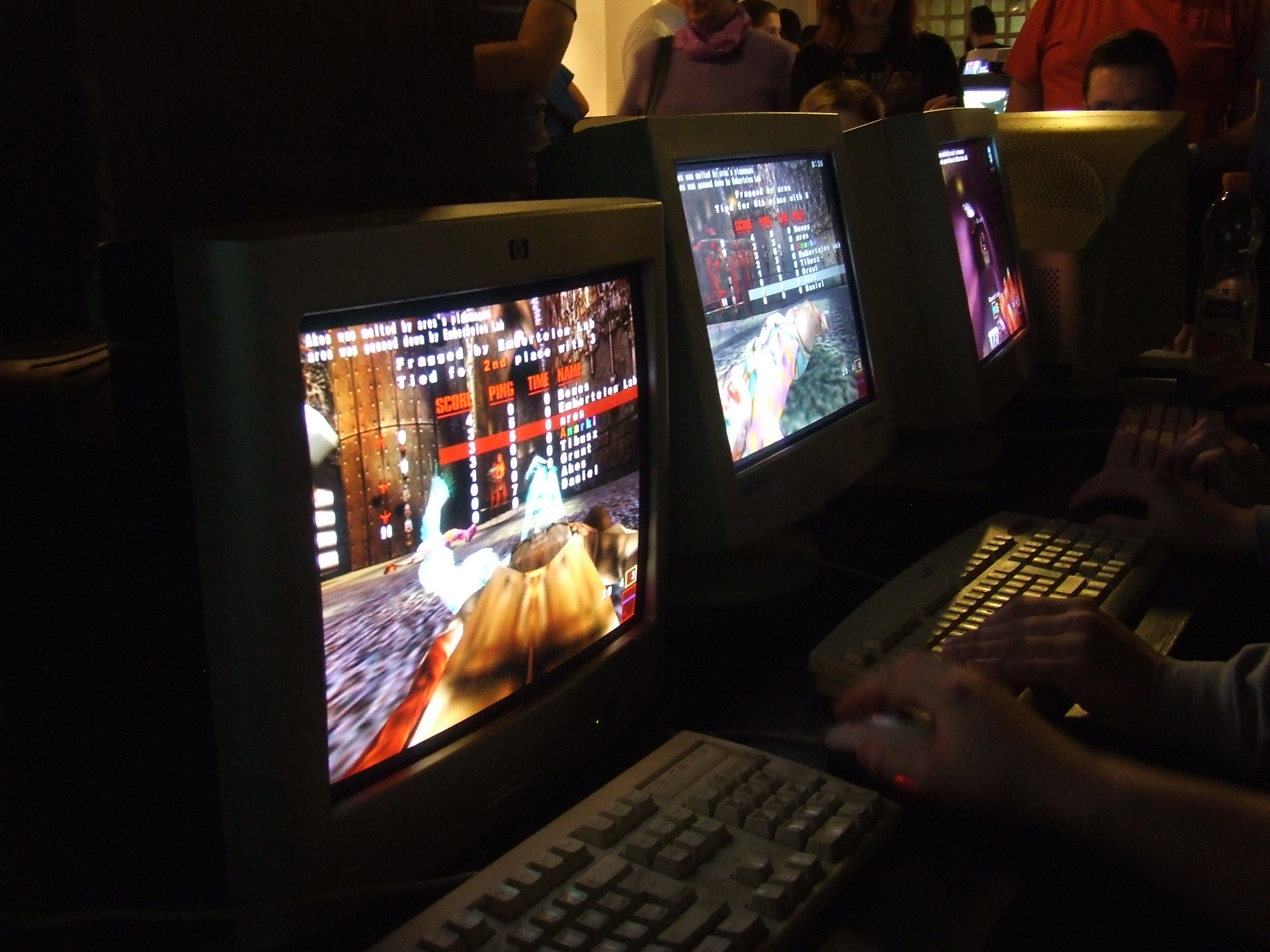 Budapest, Pixelcon 2